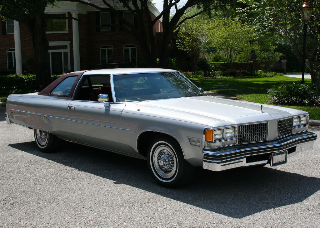 1976 Oldsmobile Ninety-Eight Regency coupe